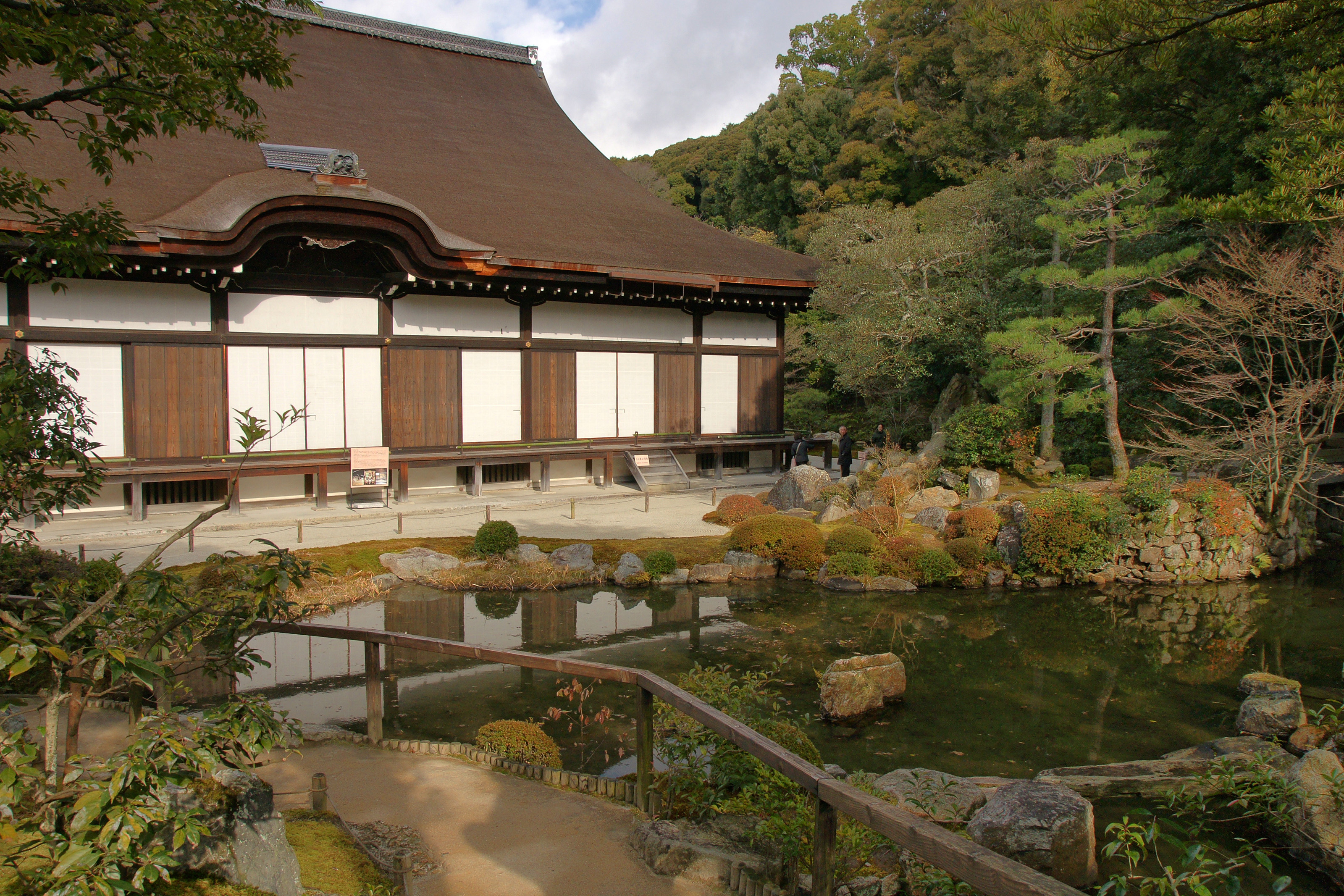 Chion-in, Kyoto, Kyoto Prefecture, Japan